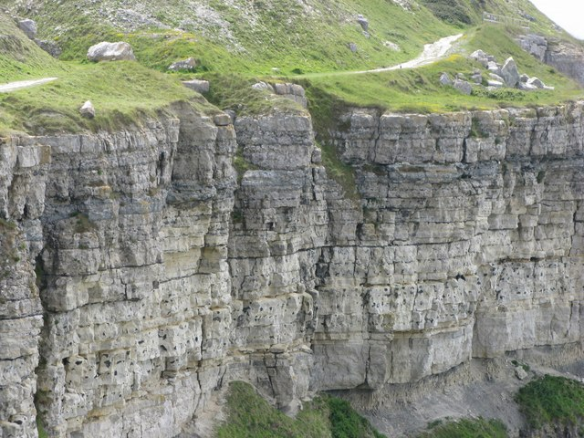 Cliffs, west side of Portland The numerous holes and ledges are a nesting site for a colony of fulmars